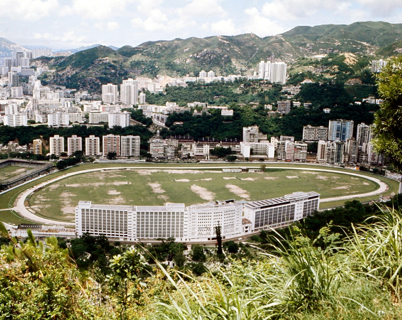 Happy Valley Racecourse view from Victoria Peak